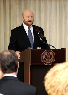 American political scientist James M. Lindsay.